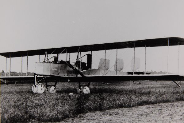 Caproni Ca.31